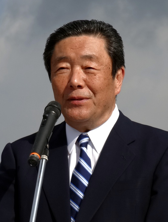 Hiroshi Moriyama, Chairman of the Federation of Kagoshima Prefecture Branches, Liberal Democratic Party, participated in the Opening Ceremony of the Nogata Interchange in Ōsaki Town, Soo County, Kagoshima Prefecture on December 13, 2014.